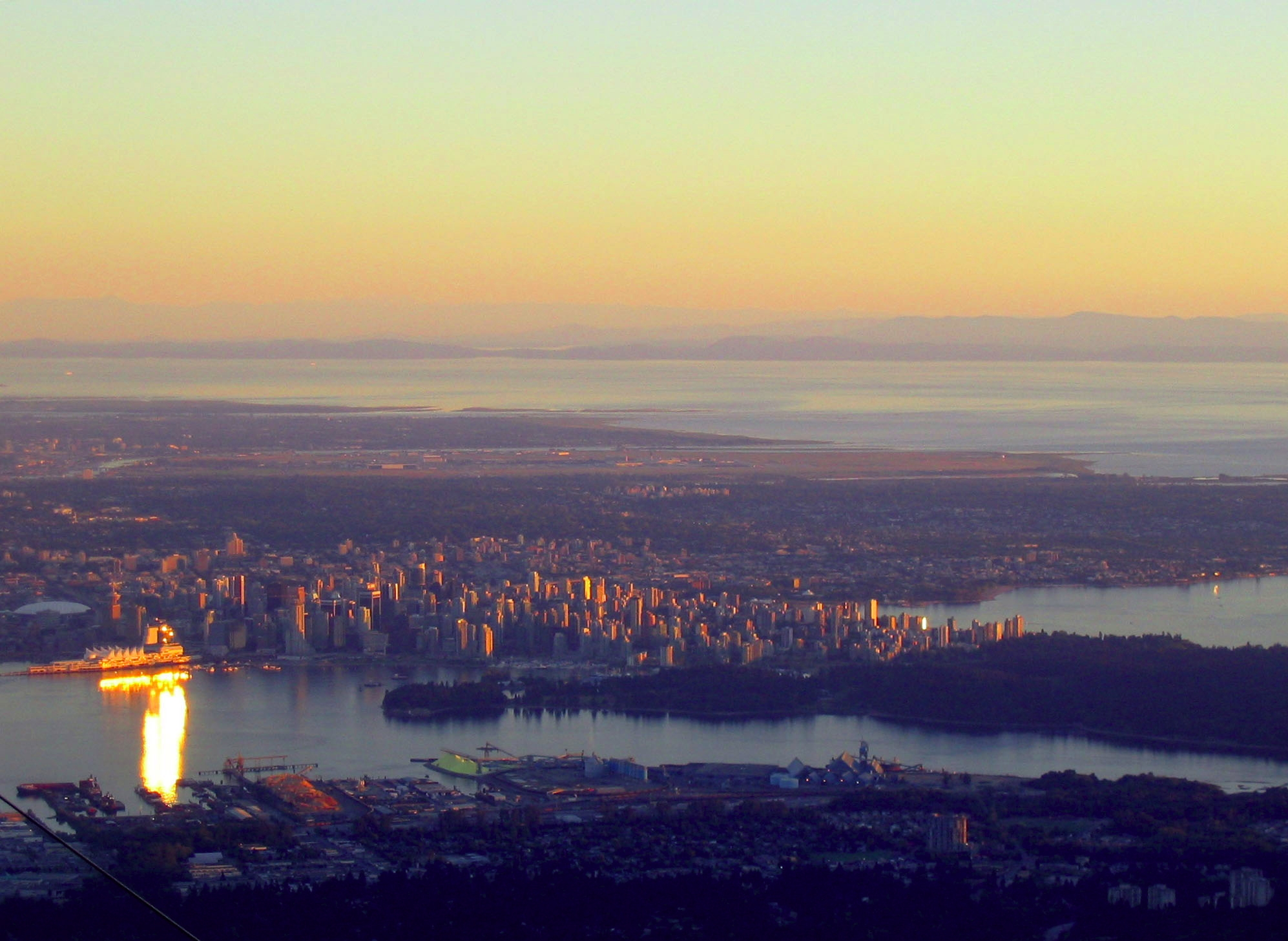 View from Grouse Mountain of Vancouver, British Columbia, Canada